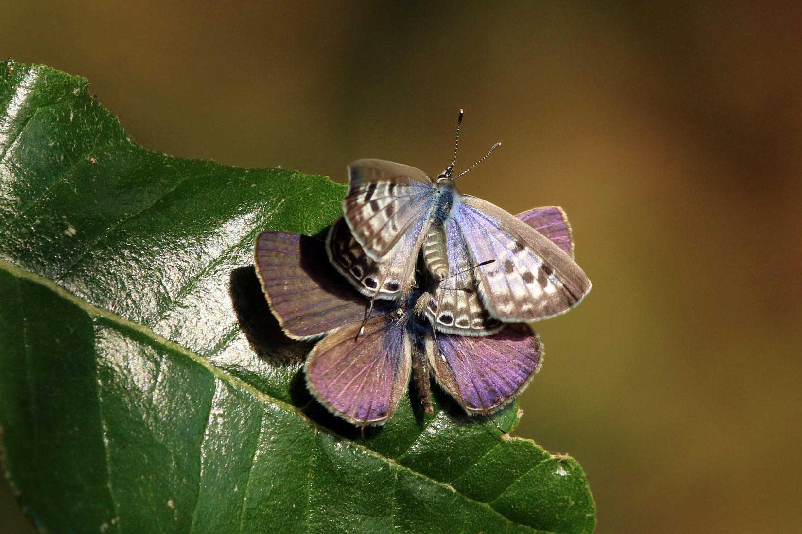 Common zebra blue butterflies (Leptotes pirithous pirithous), Lake Sibaya, KwaZulu Natal, South Africa